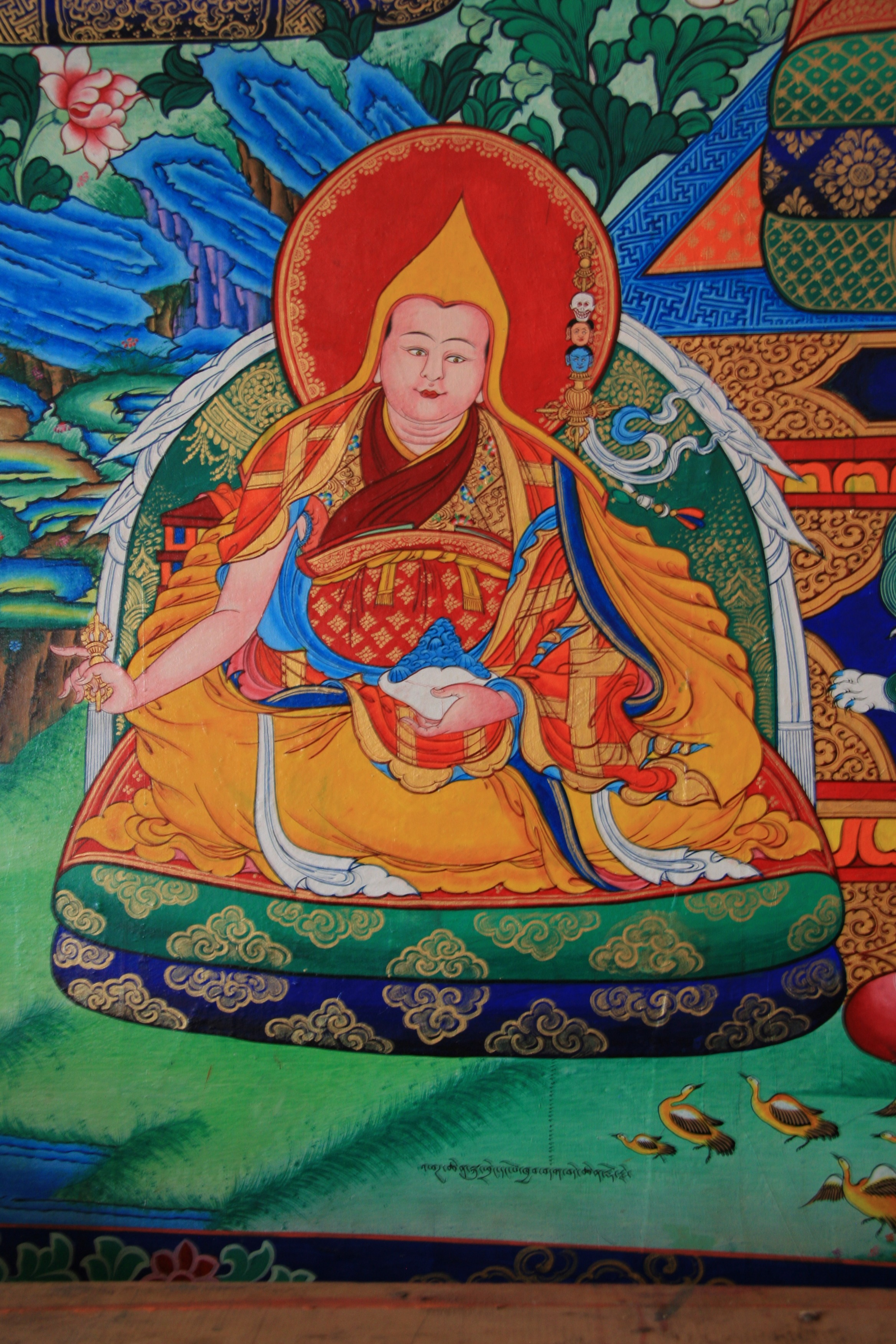 The First Phagpa Lha, Phagpa Dechen Dorje b.1439 - d.1487